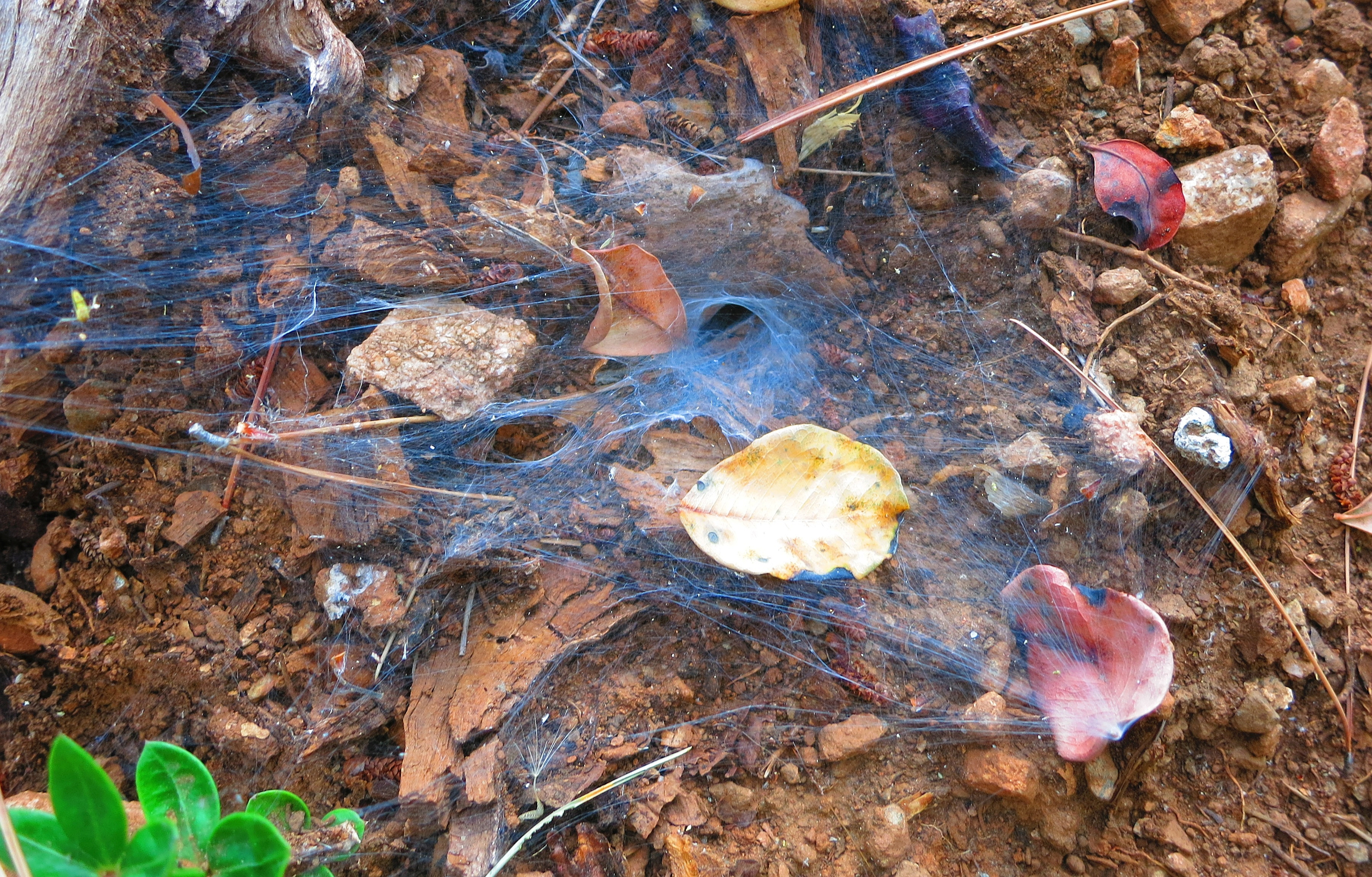 Spider’s web in forest on Sierra Blanca Mountains, near Cascada de Camoján (Spain)